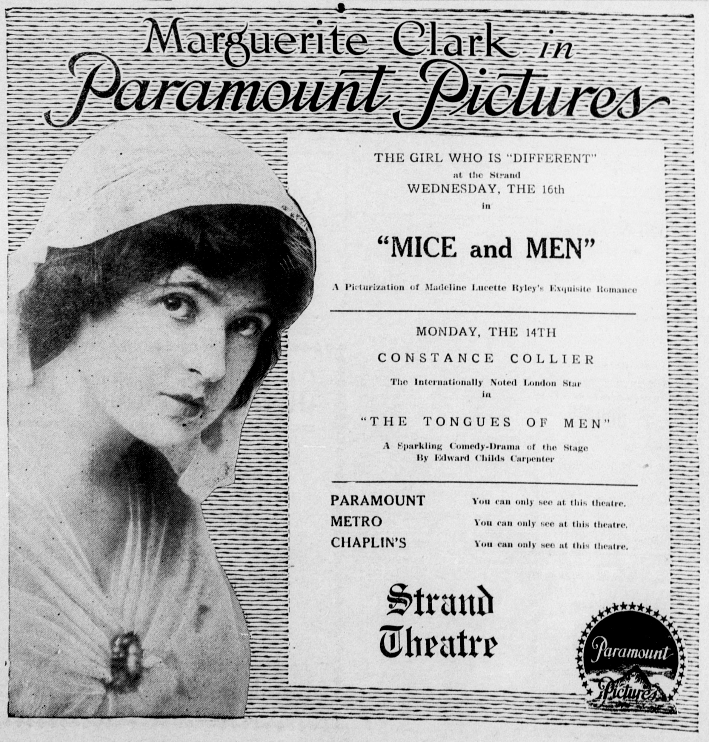 Mice and Men is a lost 1916 silent film romance directed by J. Searle Dawley, starring Marguerite Clark, and based on a 1903 Broadway play, Mice and Men by Madeleine Lucette Ryley. This is advert published in a newspaper.